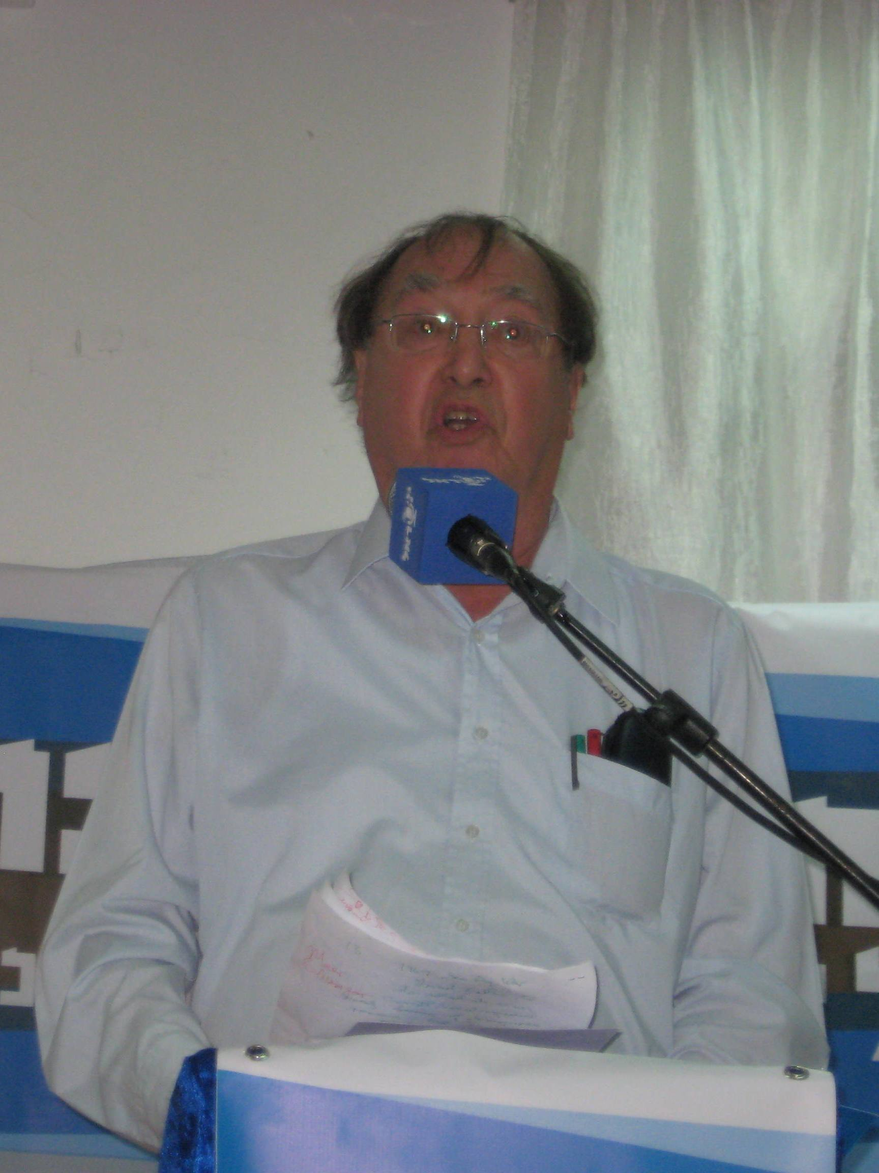 Howard Grief